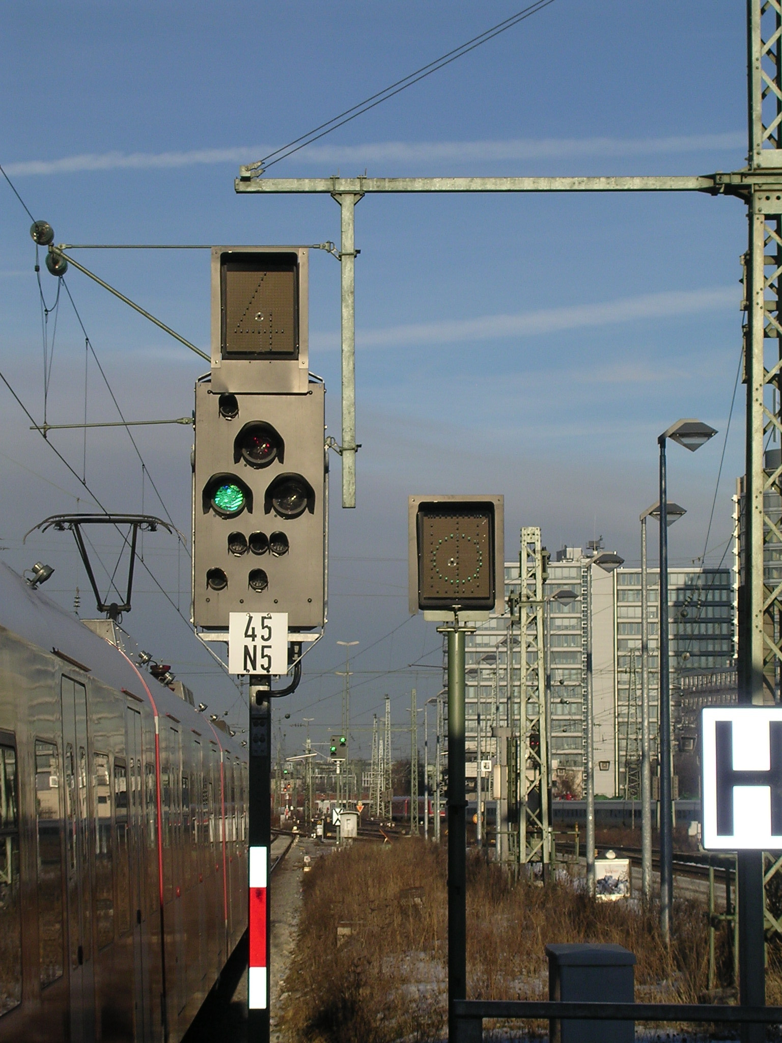 railway signal.